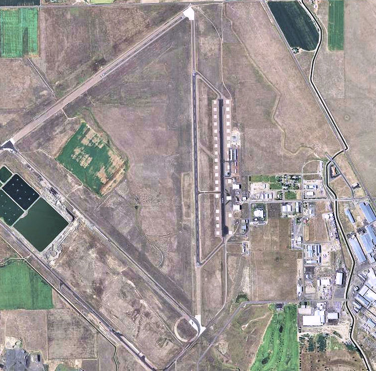 USGS digital orthophoto of Madras Municipal Airport in Oregon